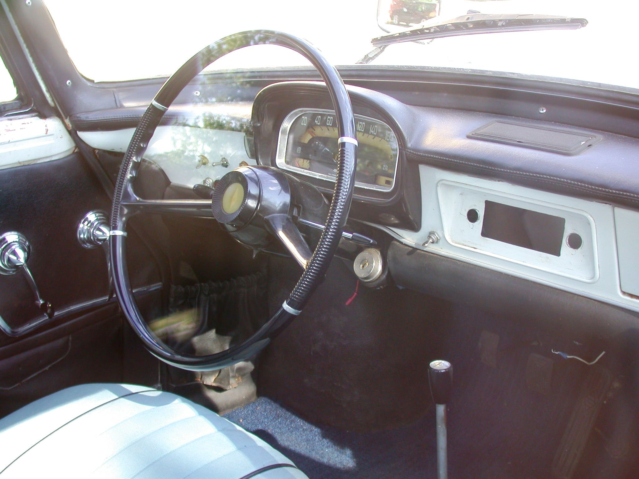 Renault Caravelle 1964. Photo by Riggwelter, July 13, 2006.